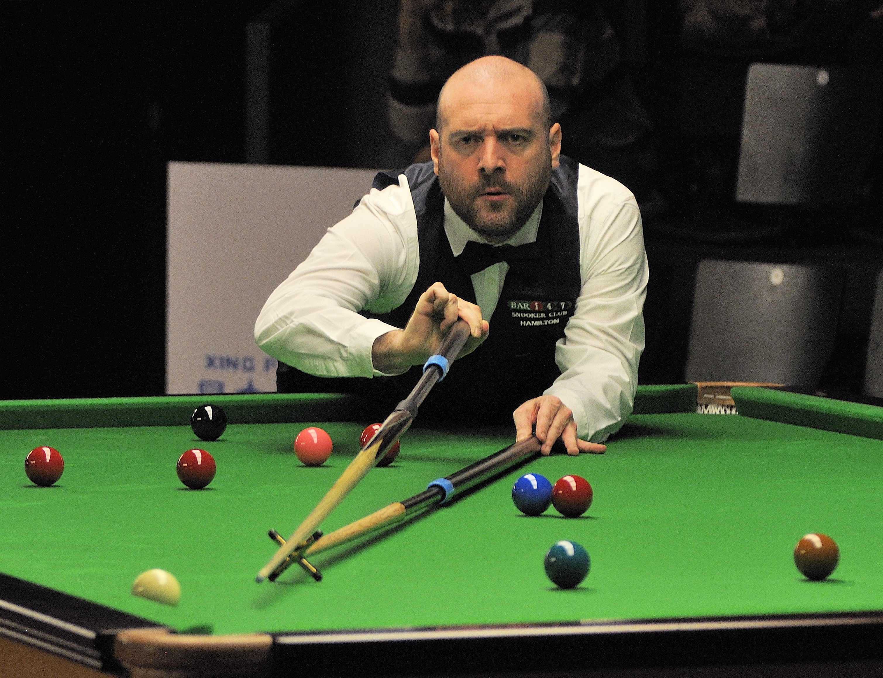 Picture taken in Berlin during the Snooker German Masters in 2014. Jamie Burnett.